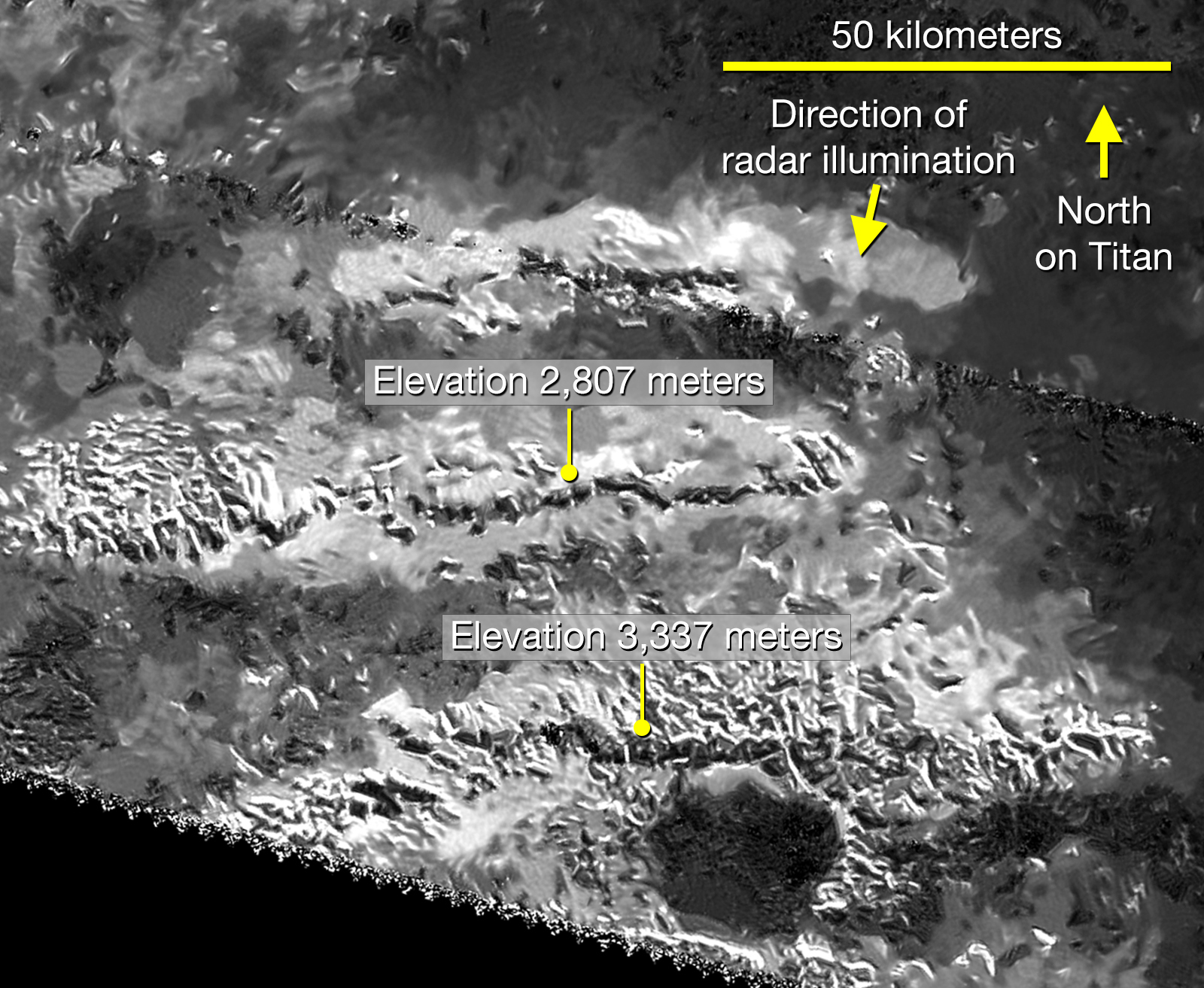 A radar image of Mithrim Montes by the Cassini probe.